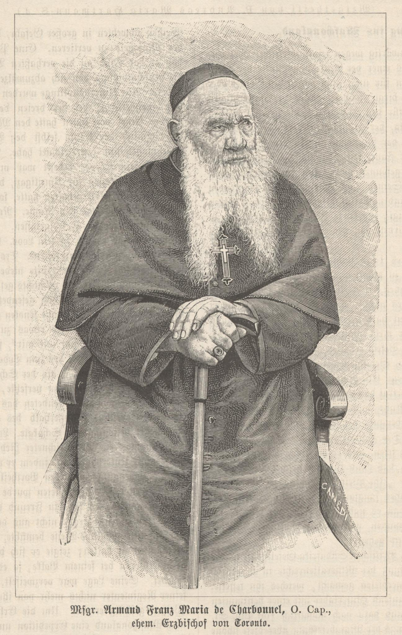 Msgr. Charbonell, Archbishop of Toronto